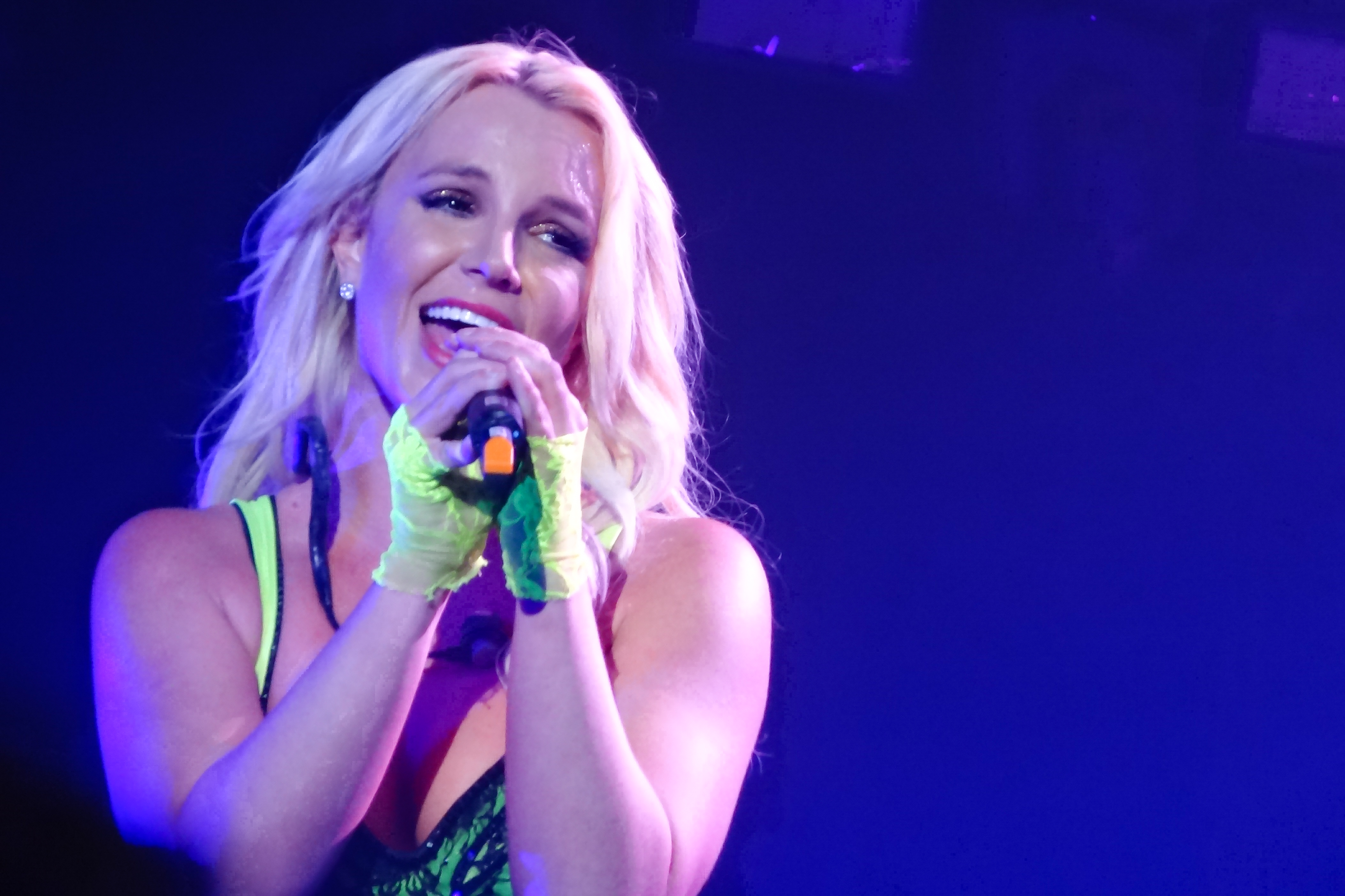 Perfume